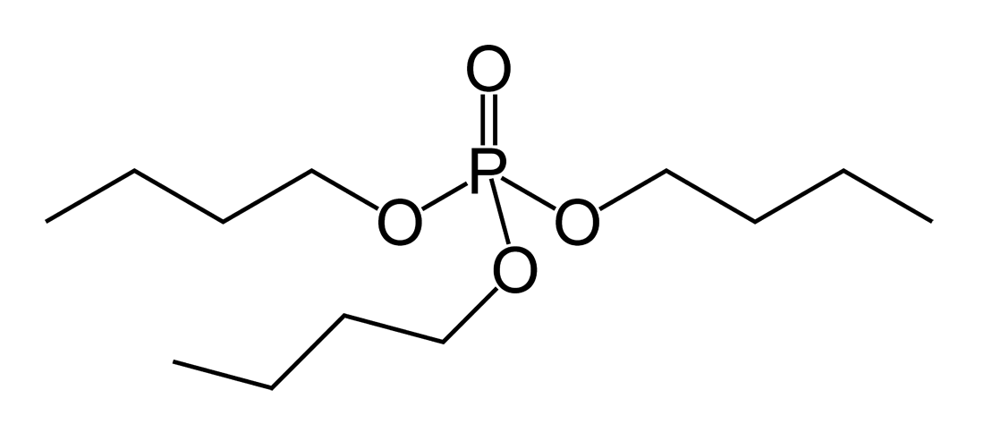 Structural formula (skeletal) of the chemical compound tributyl phosphate